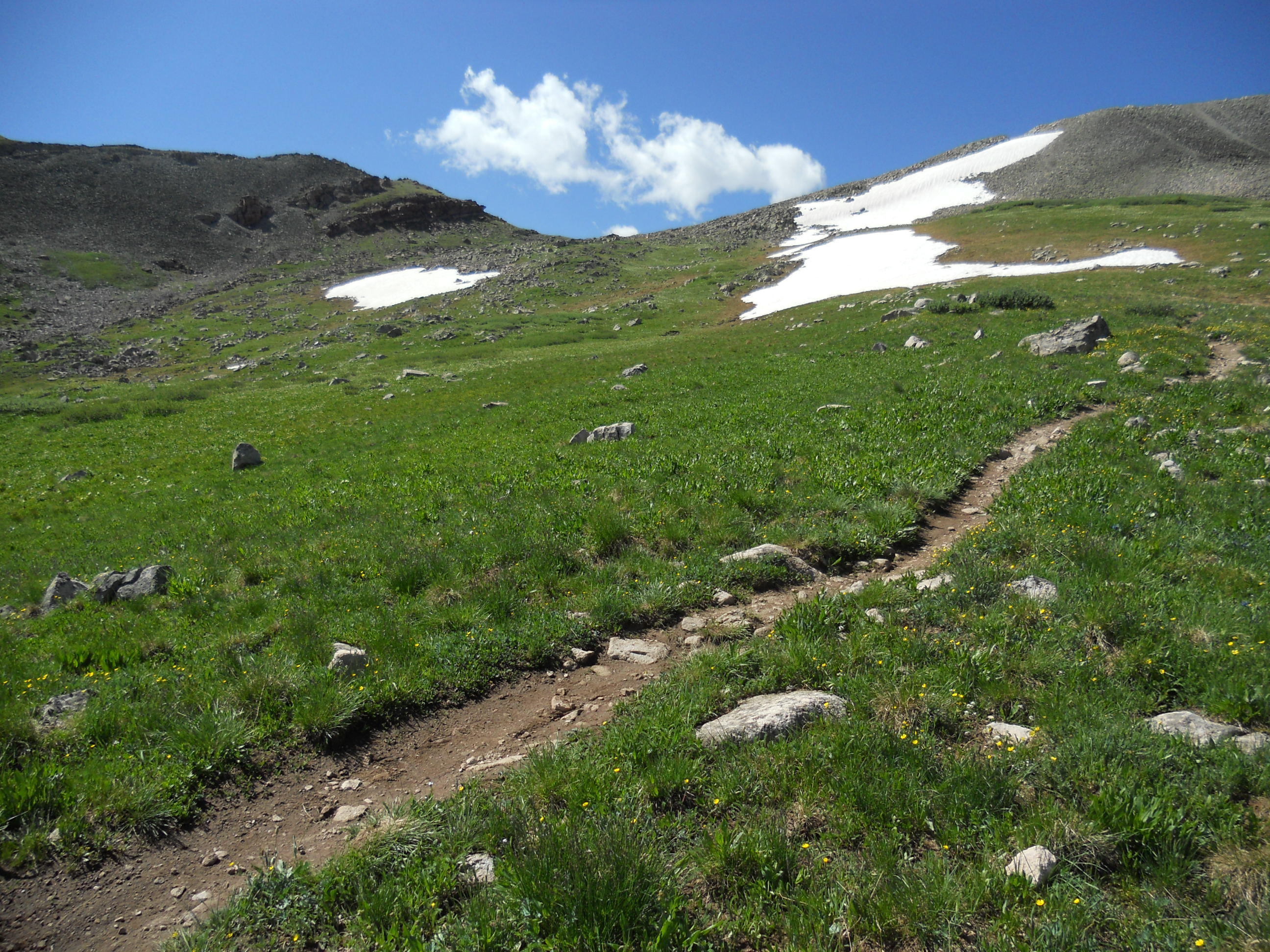 Searle Pass viewed from the north. It is located in the Gore Range within the Arapaho National Forest.The Continental Divide National Scenic Trail and the Colorado Trail cross over the pass. The shared footpath is seen in this image.